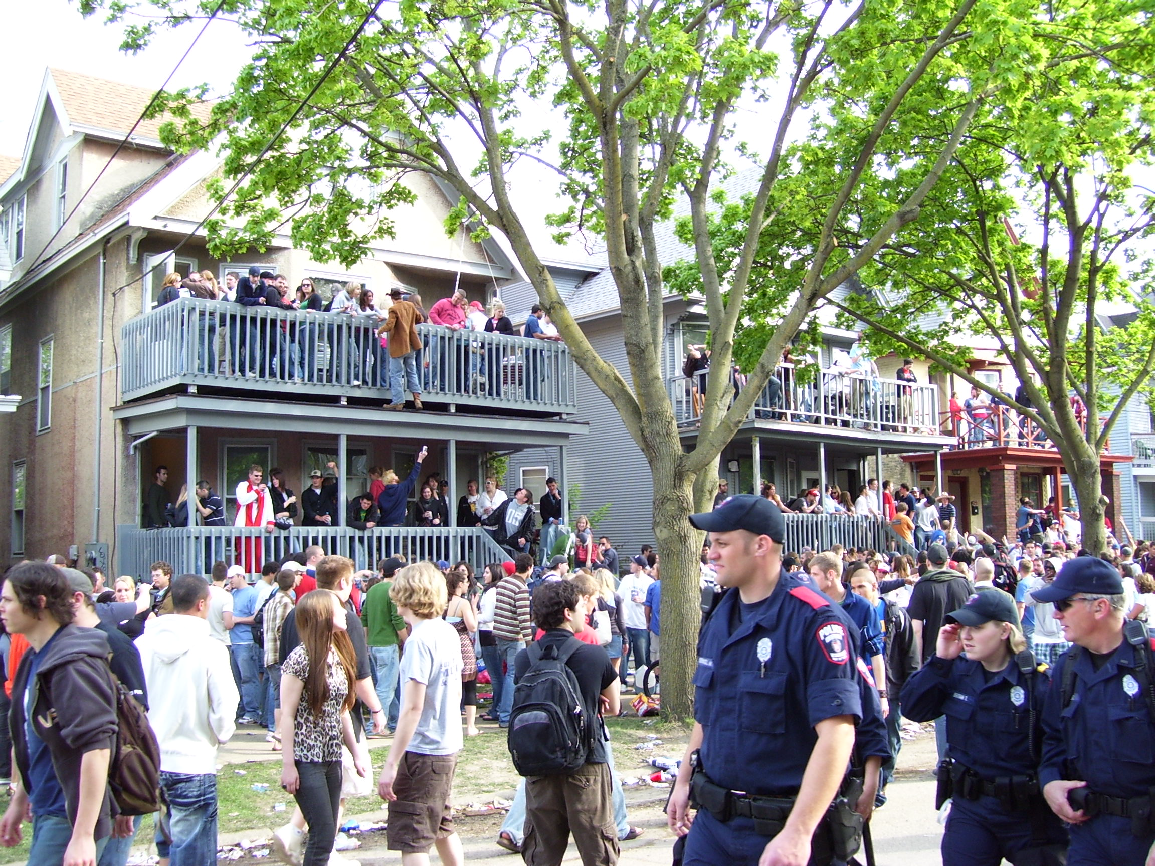 Broad picture showing people and police officers on house balconies and on the street at the 2007 Mifflin Street Block Party.